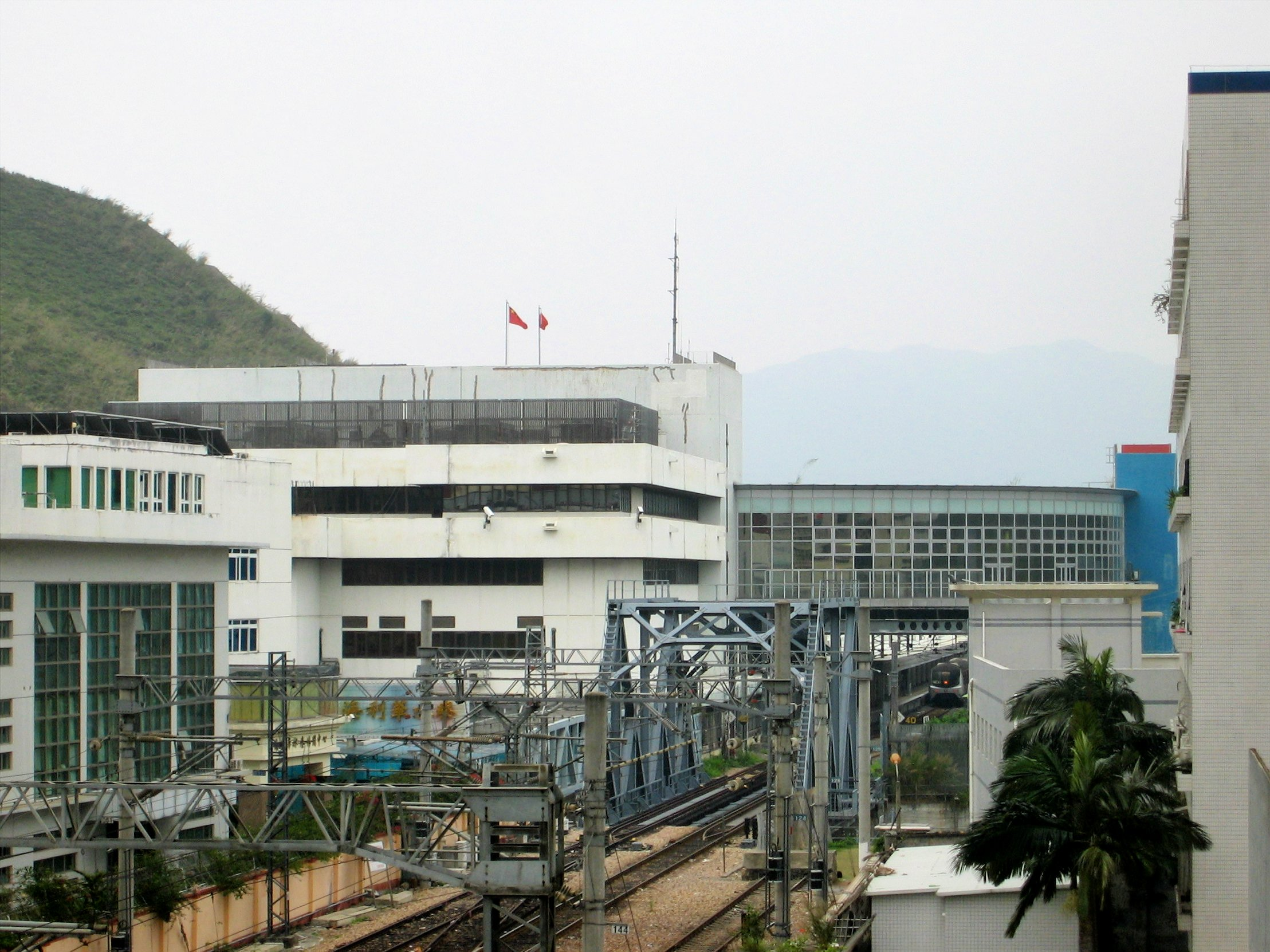 Hong Kong Lo Wu MTR Station view from Shenzhen